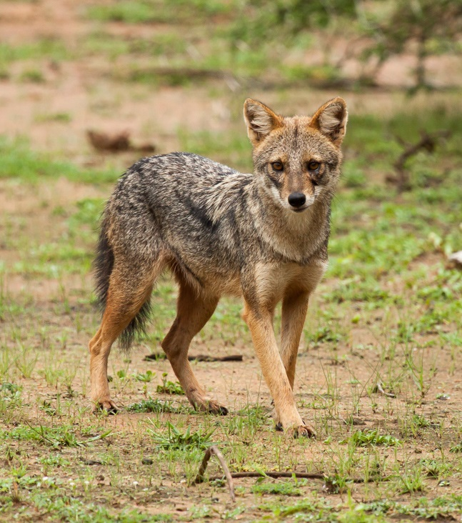 Sri Lankan jackal, Yala National Park